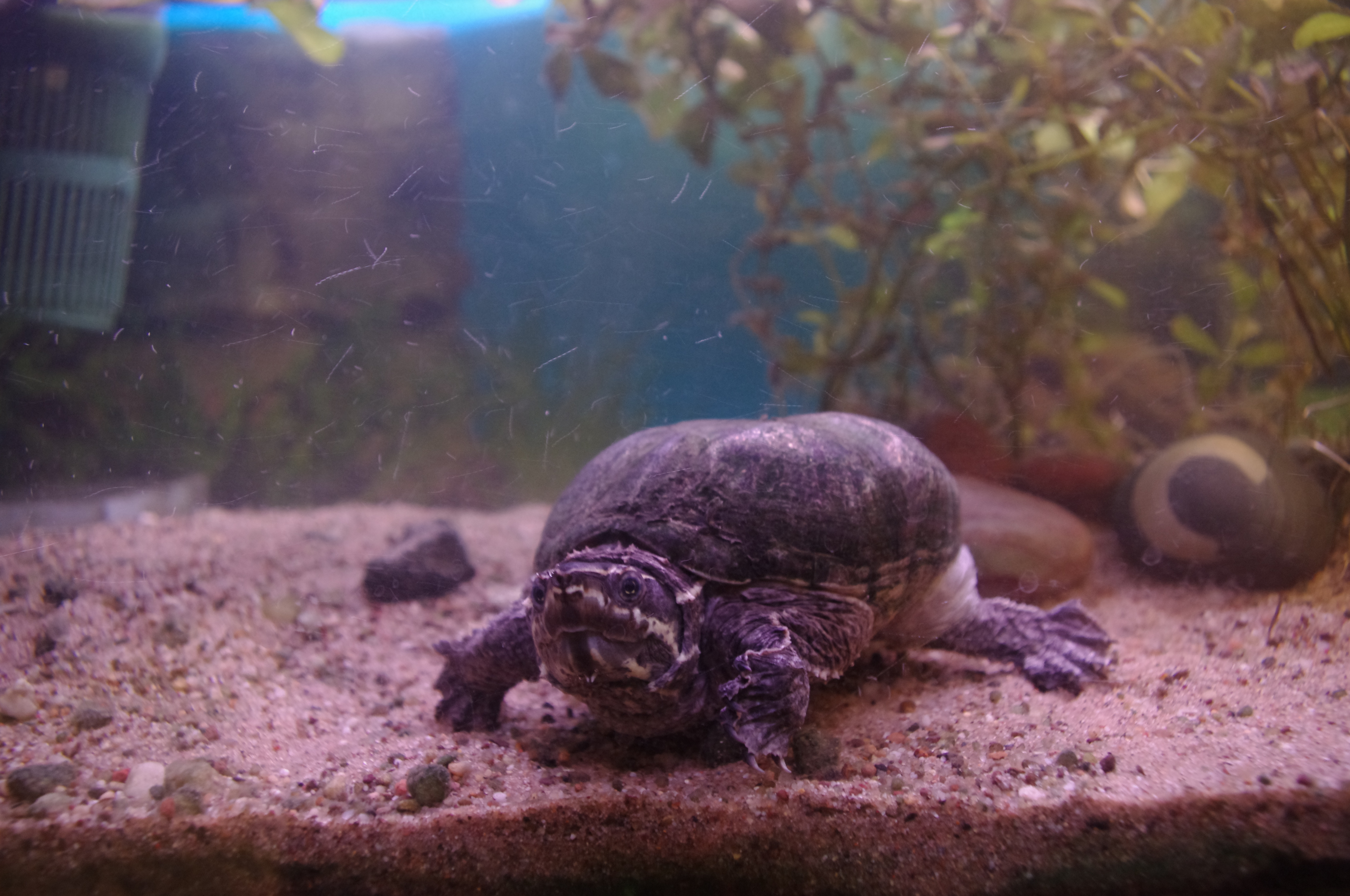 Sternotherus odoratus in an aquarium